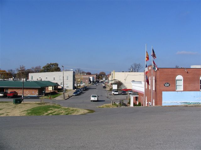 Photo from a recent trip to New Madrid, Missouri. Picture was taken November 13th, 2006. A higher resolution photo is avilable upon requst. Google Maps